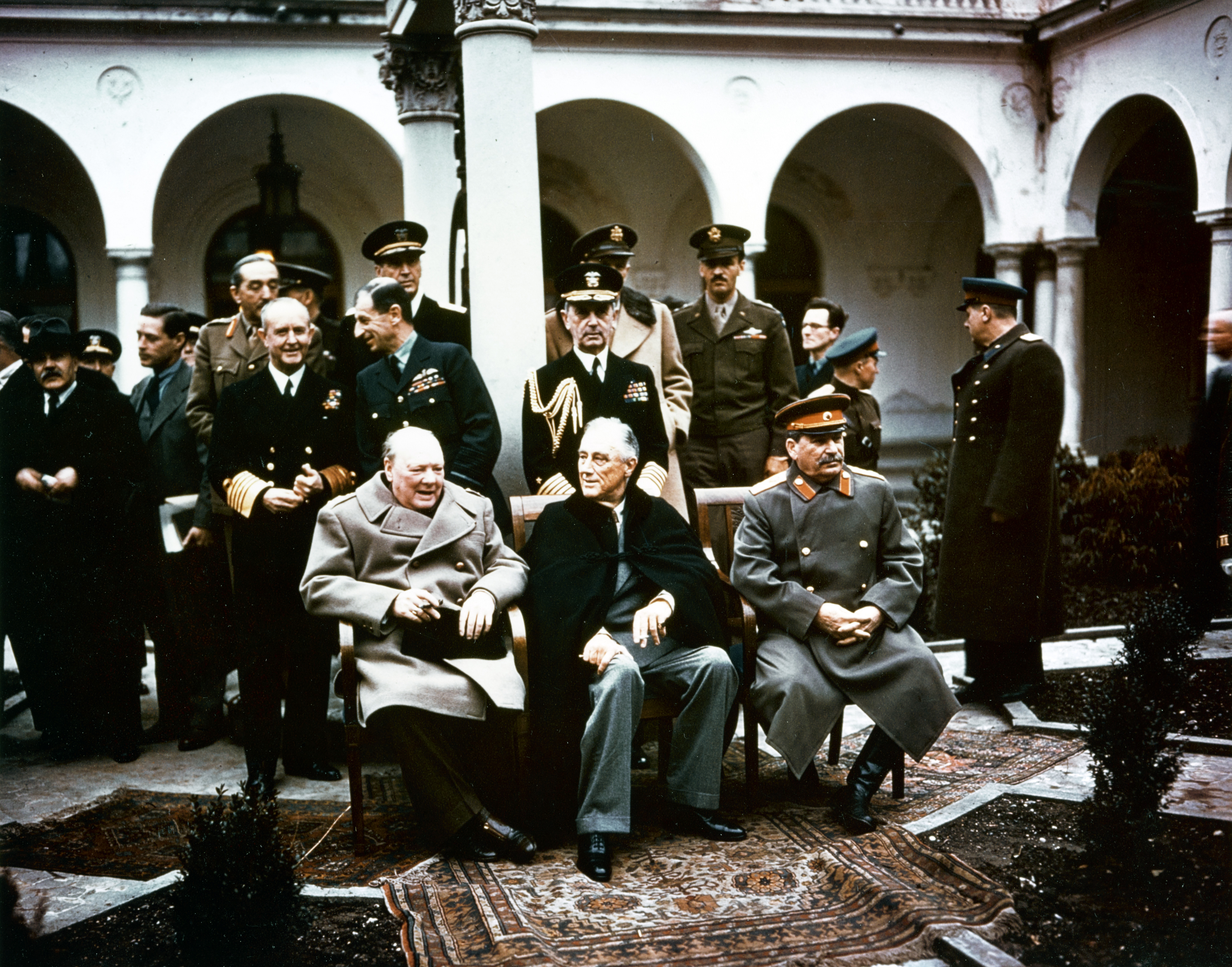 USA C-543 (Color): Yalta Conference, February 1945 Allied leaders pose in the courtyard of Livadia Palace, Yalta, during the conference. Those seated are (from left to right): Prime Minister Winston Churchill (UK); President Franklin D. Roosevelt (USA); and Premier Josef Stalin (USSR). Also present are USSR Foreign Minister Vyacheslav Molotov (far left); Admiral of the Fleet Sir Andrew Cunningham, R.N., and Air Chief Marshall Sir Charles Portal, R.A.F. (both standing behind Churchill); and Fleet Admiral William D. Leahy, USN, (standing behind Roosevelt). Note ornate carpets under the chairs. Photograph from the Army Signal Corps Collection in the U.S. National Archives. (2016/03/14).